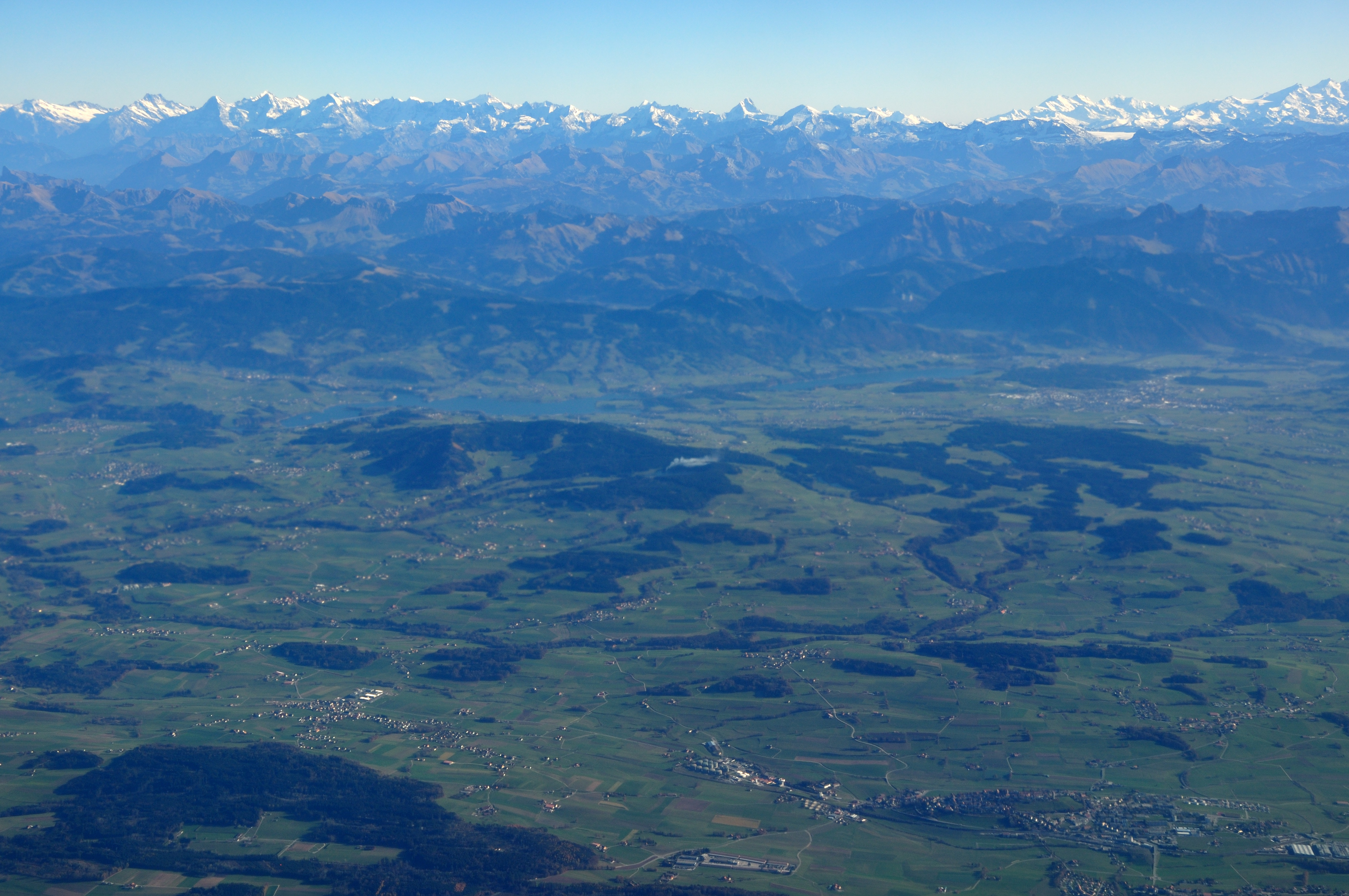 Switzerland, Canton of Fribourg, aerial view overhead Combremont-le-Petit Vaud on a clear November day on a flight from Prague to Geneva.